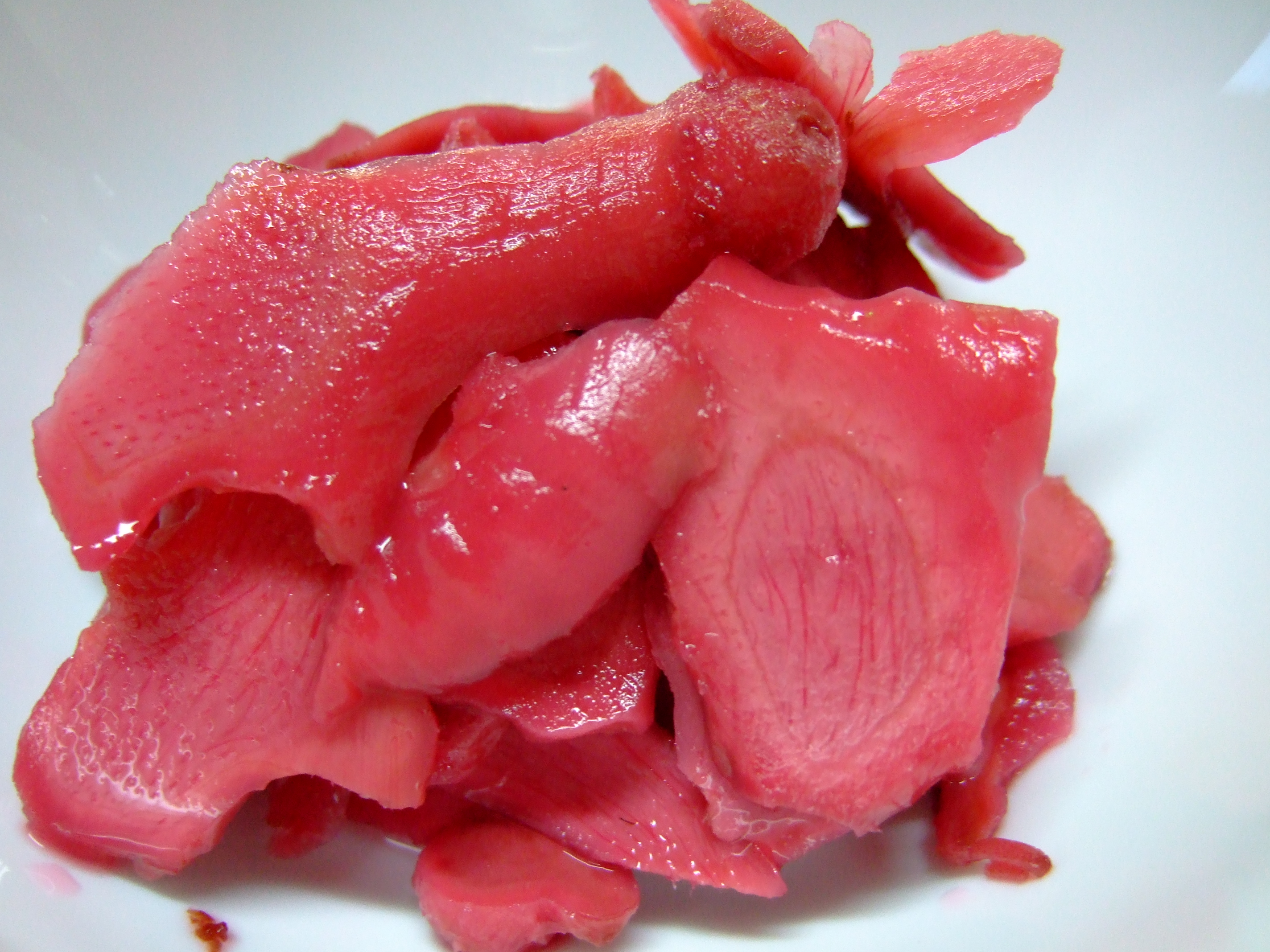 Pickled ginger (beni shoga)